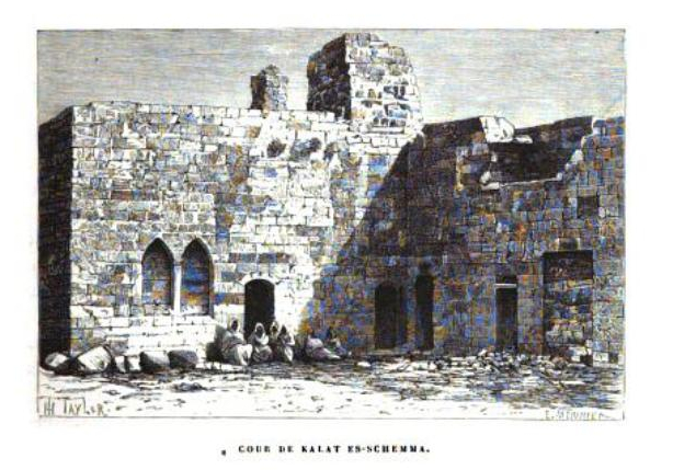 Original caption in